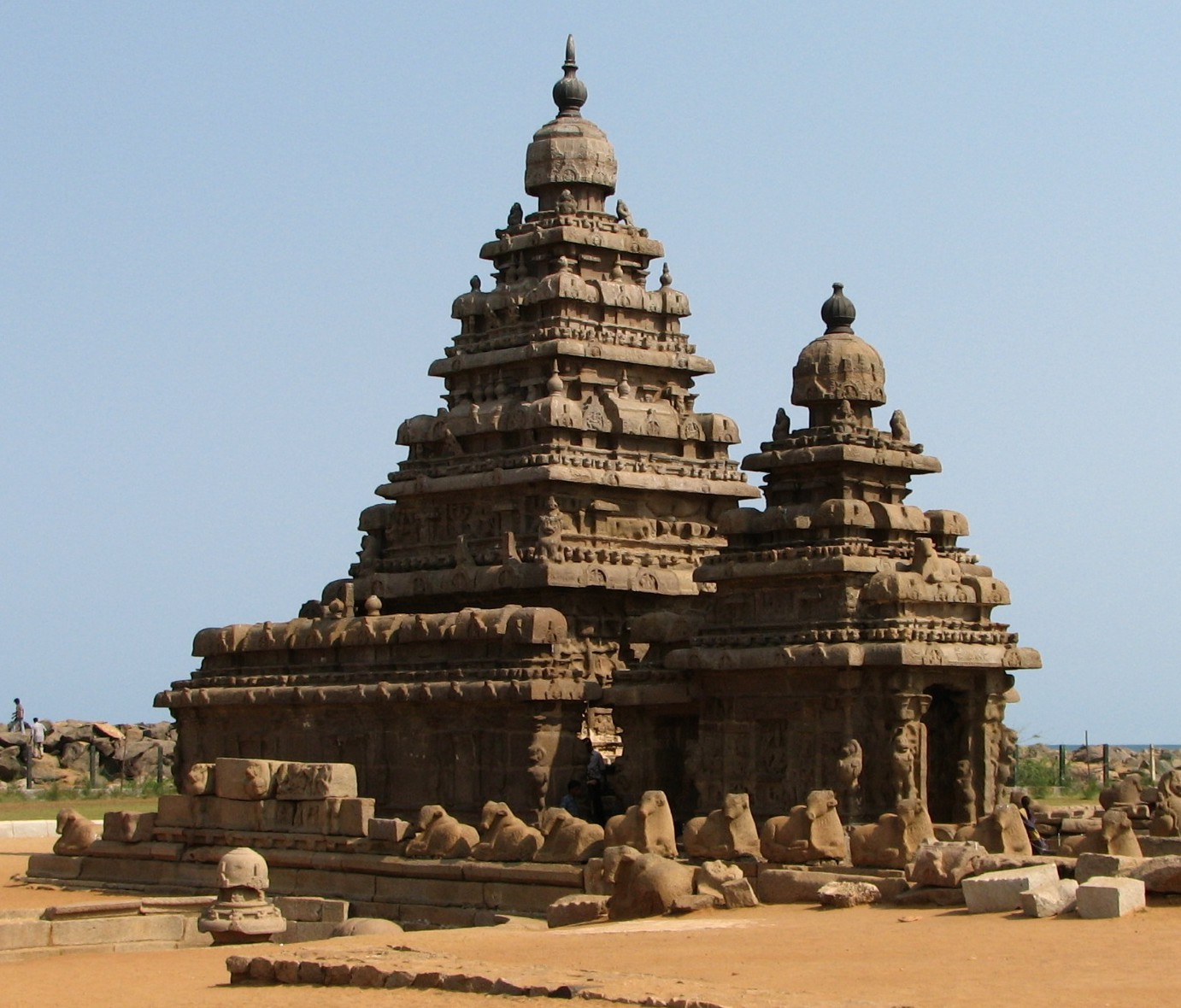 Mamallapuram shore temple - 2007.